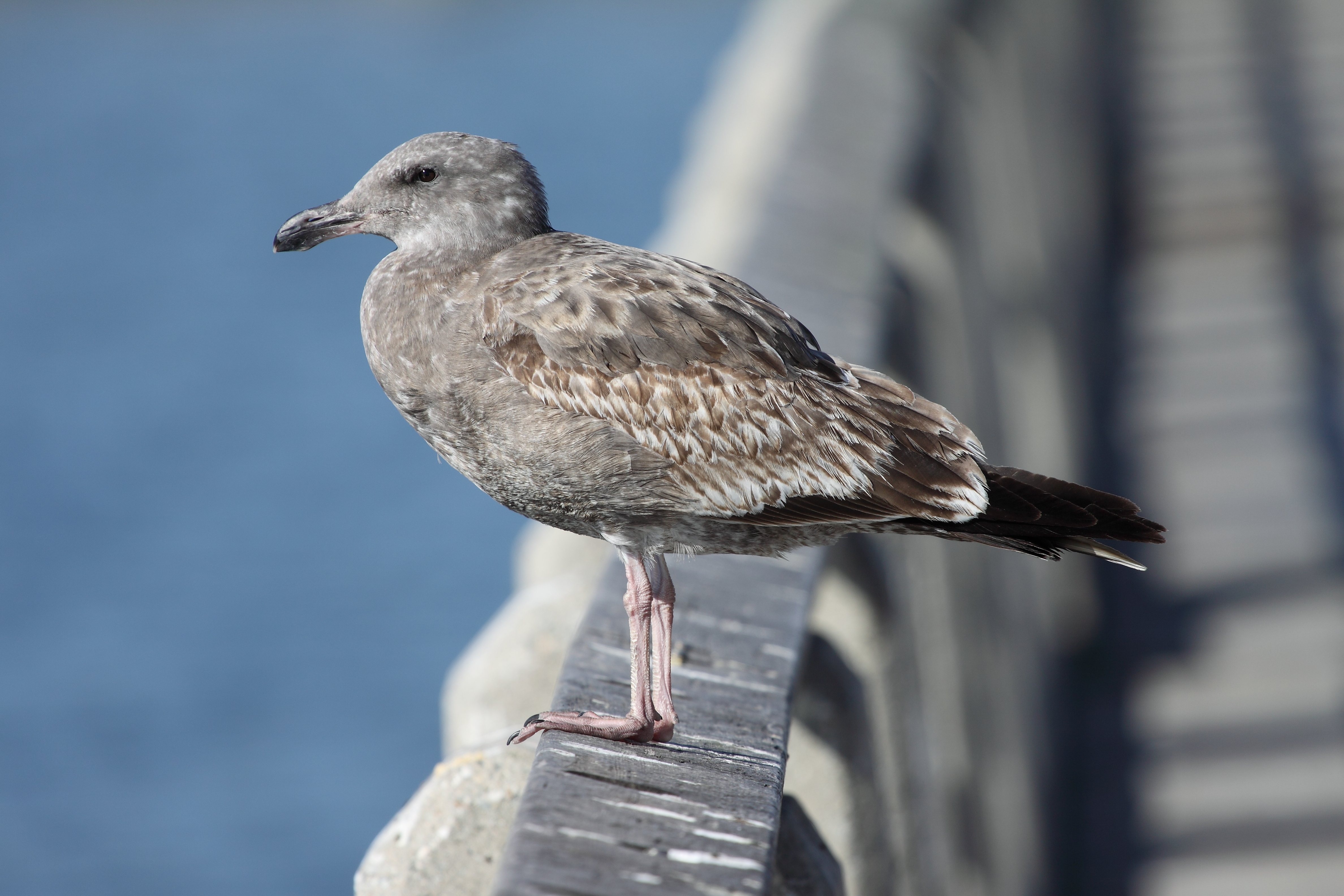 1st winter Western Gull (Larus occidentalis).